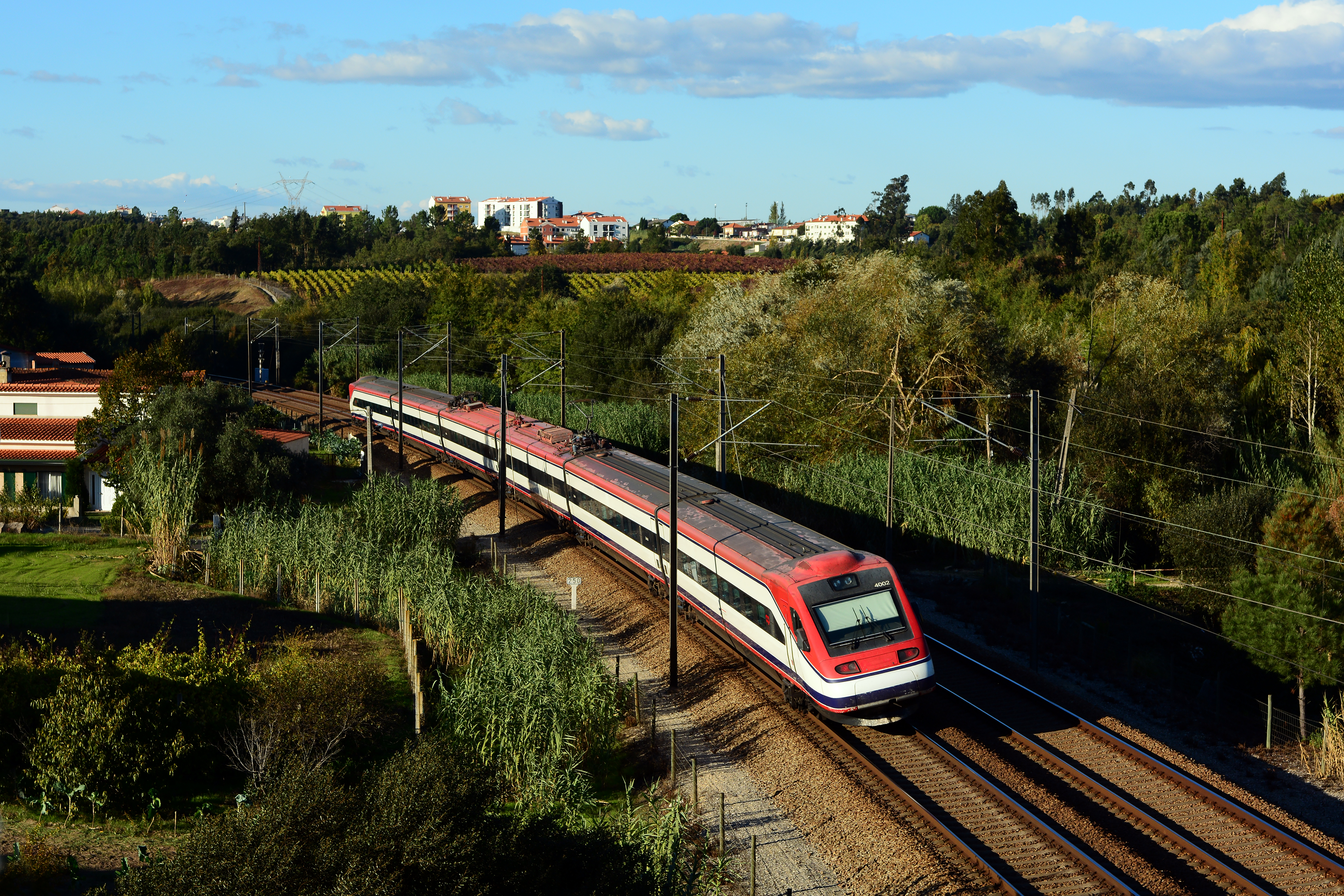 Alfa Pendular train (train type 4000, no 4002) running from Lisbon to Porto on Linha do Norte railway, close to Oliveira do Bairro, Portugal